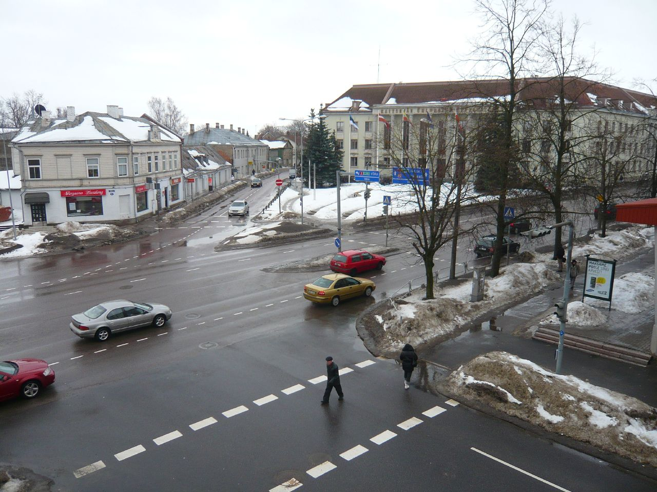 Riiamäe square in Tartu